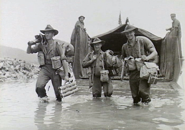 AWM Caption: Australian soldiers from A Company, 14/32nd Battalion disembarking from a landing craft operated by the US Army's 594th Engineer Boat and Shore Company during the Landing at Jacquinot Bay